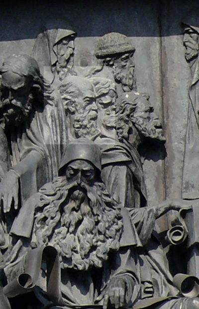 Zosima Solovetsky on the Monument "Millennuim of Russia" in Veliky Novgorod